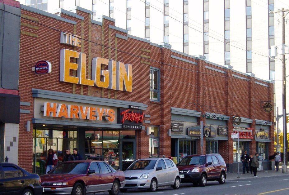 The former Elgin Theatre in Ottawa, taken by SimonP